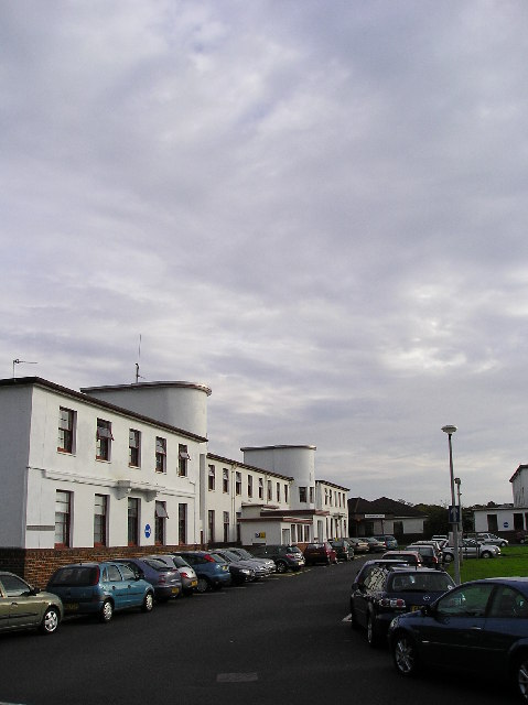 Ayrshire Central Hospital, Irvine. Classic 1930's design features